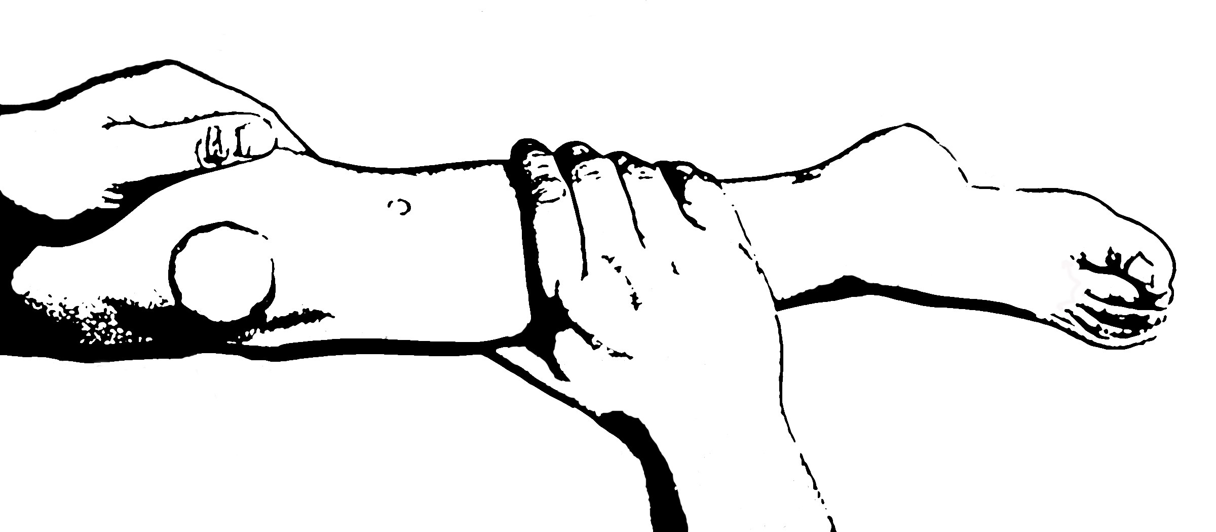 Pediatric leg for identification of proximal tibeal intraosseous insertion site landmark. Search words: Emergency medicine, IO, Easy IO, intraosseous, shock, trauma, hypovolemia, CPR, PALS, medical, nursing, needle, ER, ICU, PICU, code management, IV fluid, access, bolus, bone, leg, normal saline, blood, infusion, inotropes, MVA, hospital, MD, EMS, EMT, paramedic, advanced life support, child, peds, epinephrine, adrenaline